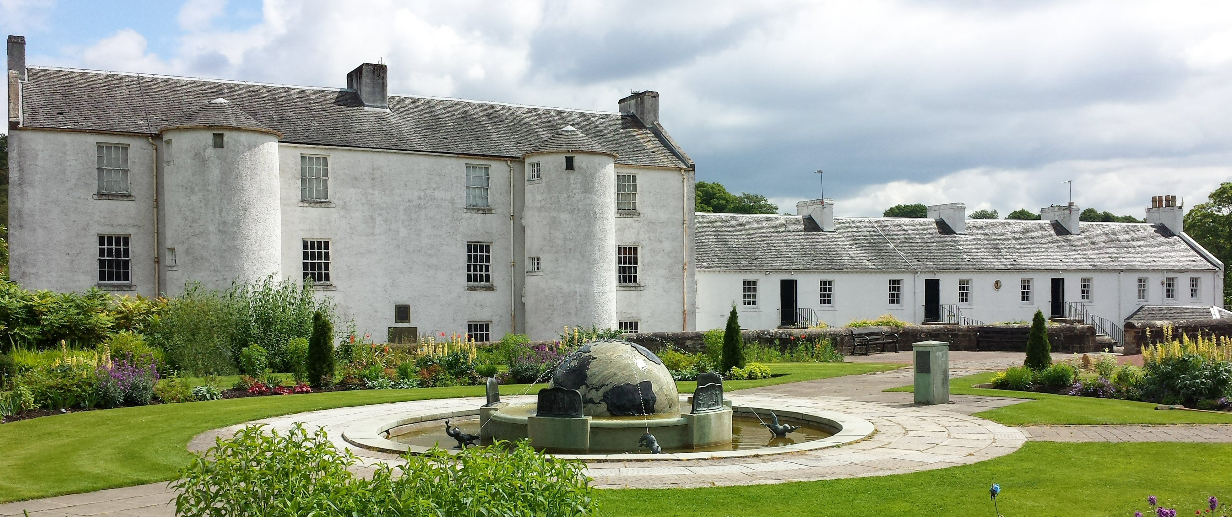 The David Livingstone Centre, Shuttle Row, Blantyre, Scotland. This is a museum dedicated to the life and work of David Livingstone, housed in the buildings in which he lived and worked. Livingstone was a Scottish medical missionary and explorer.